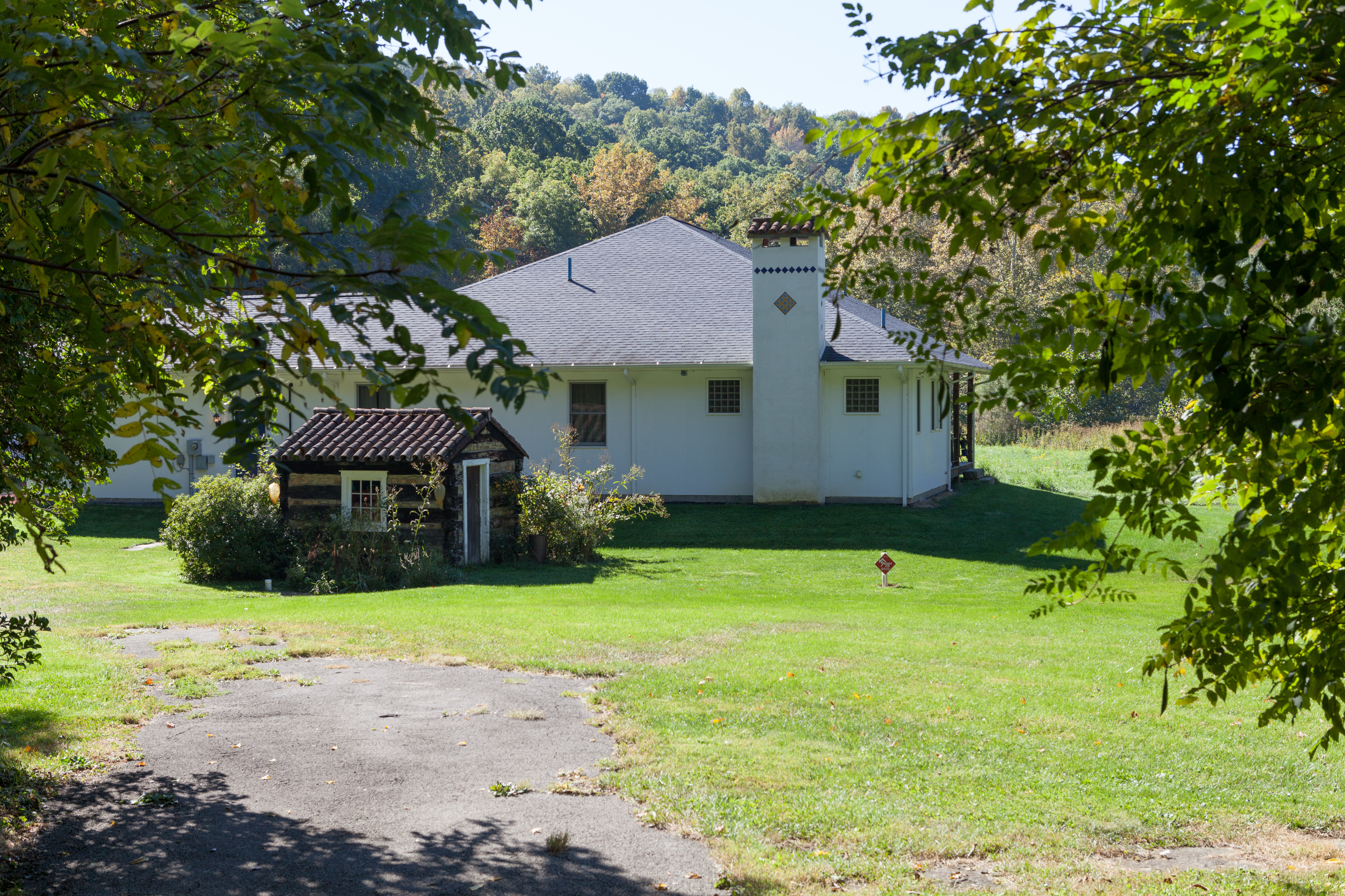 The new house on the lot where the now demolished Ernest Thralls House once stood. The original house was lost to mine subsidence.